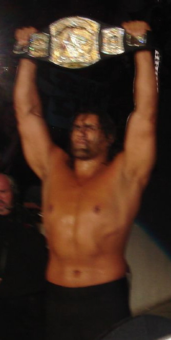 The Great Khali with the WWE Championship during a WWE house show held in Hamilton, Ontario, Canada.